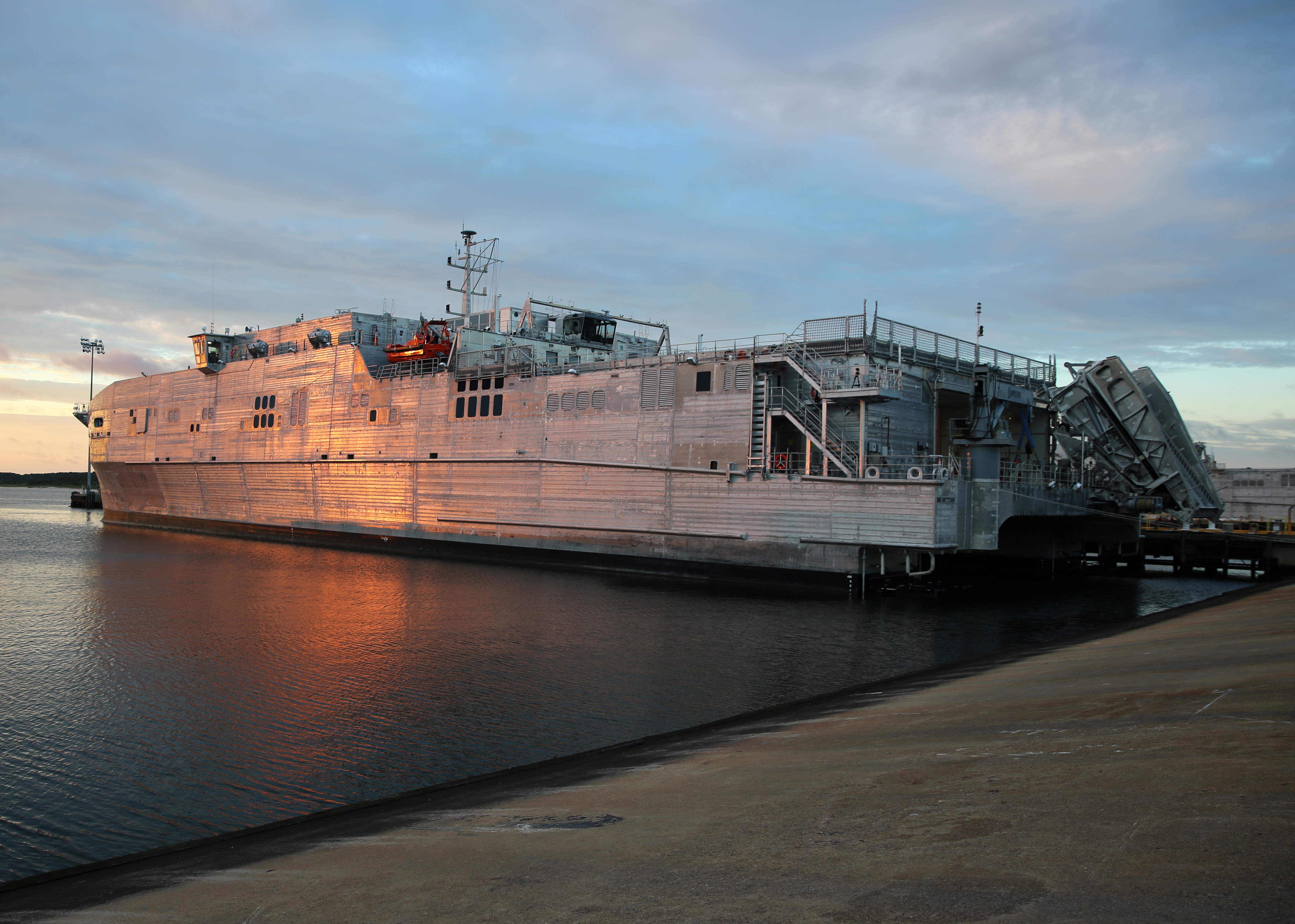 VIRGINIA BEACH, Va. (July 1, 2017)--A view of Military Sealift Command's expeditionary fast transport ship USNS Yuma (EPF 8) pier-side onboard Joint Expeditionary Base Little Creek-Fort Story, July 1. (U.S. Navy photograph by Bill Mesta/released)